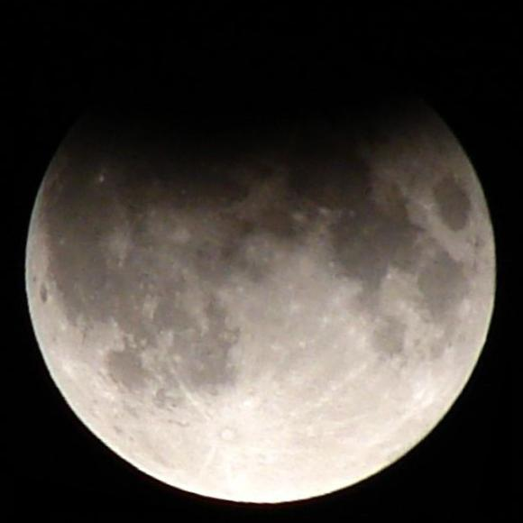 Partial lunar eclipse, Sept 7, 2006.